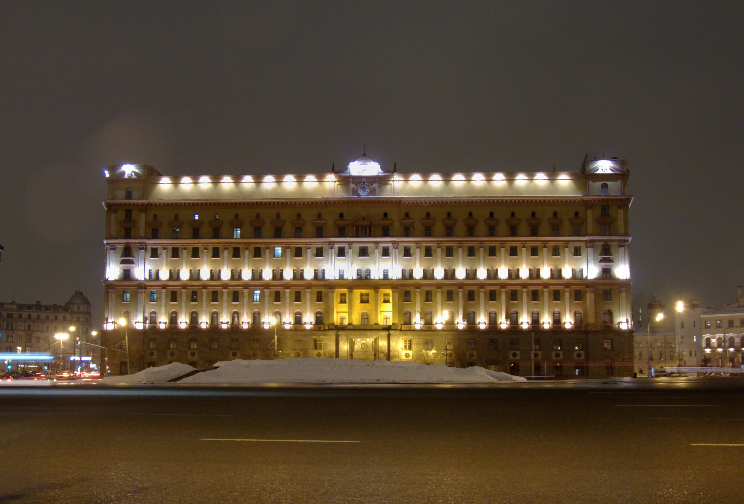 view of the ex-headquarter of the KGB at night